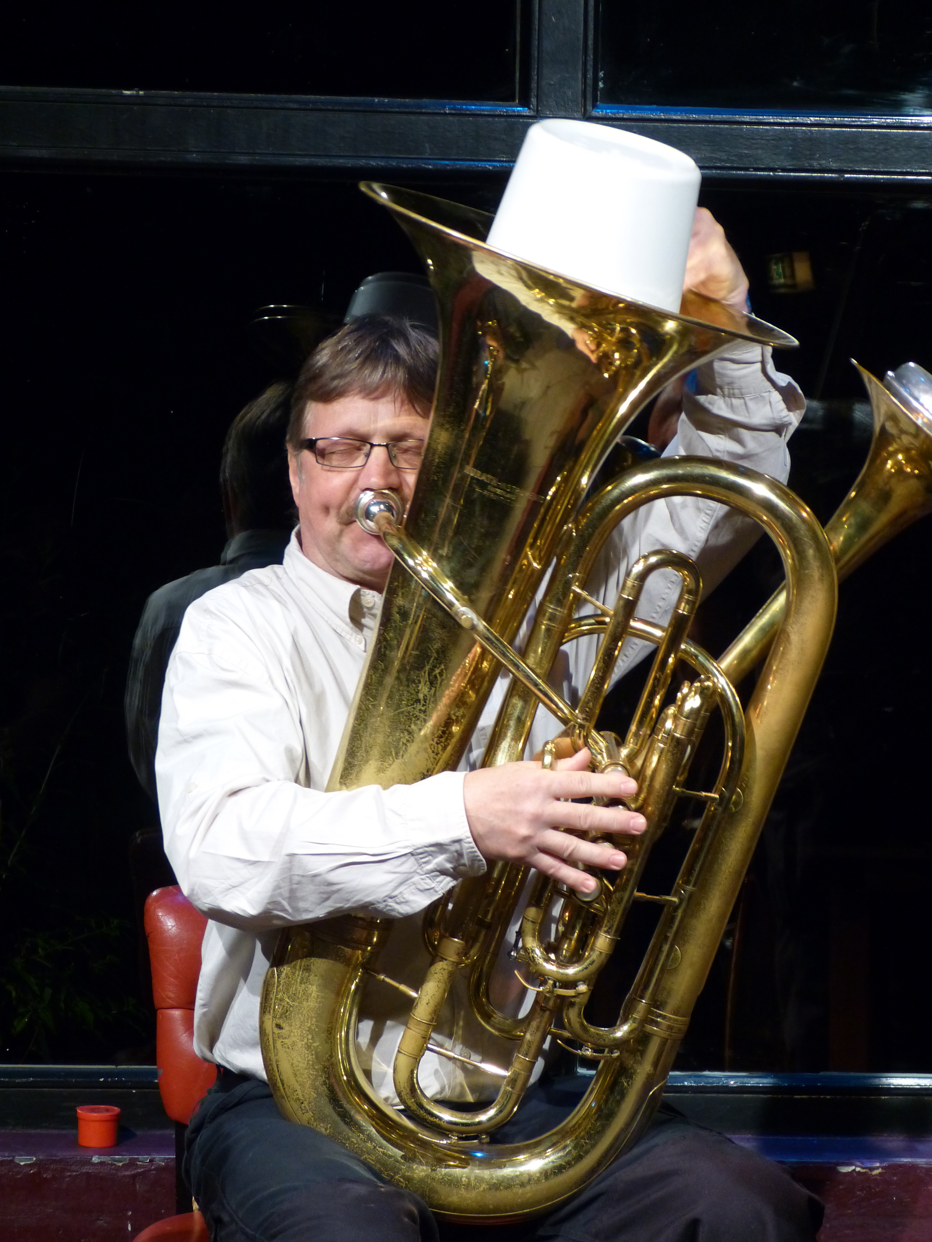 Pinguin Moschner during the Memorial for Peter Kowald at Stadtgarten Cologne, Germany, September 21st, 2012